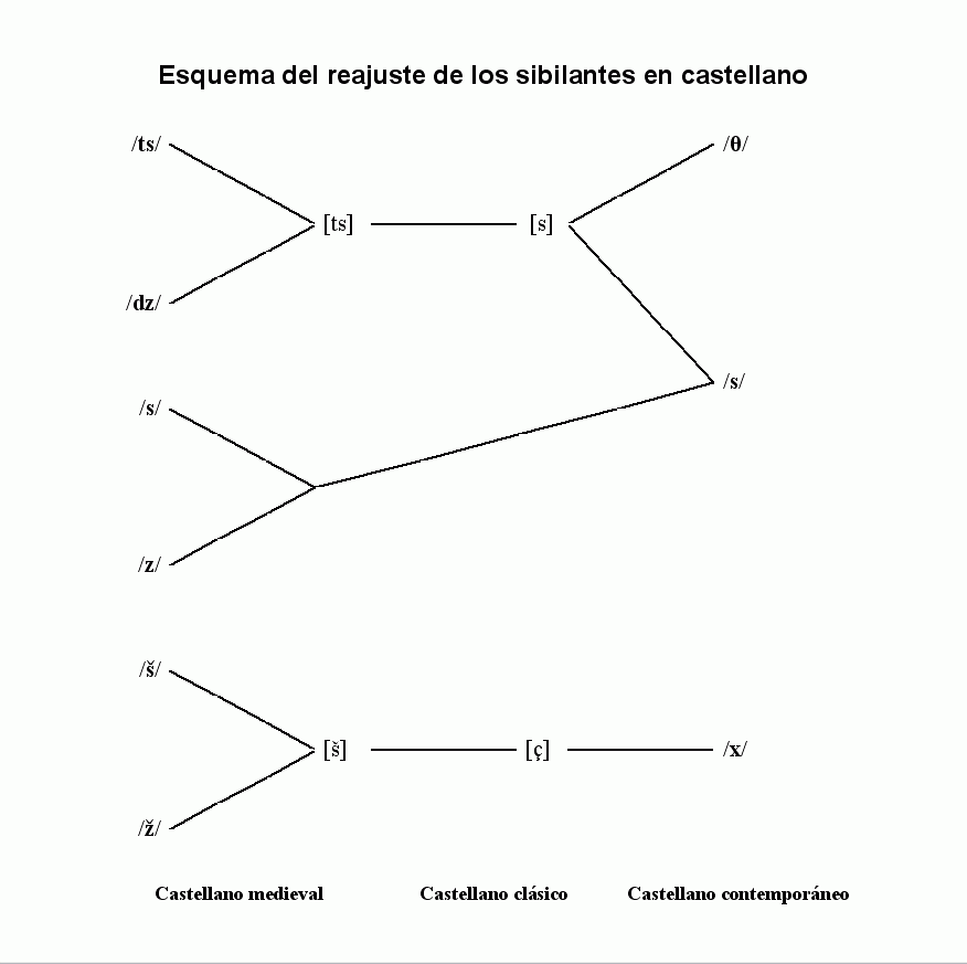 Scheme of Medieval Castilian sound change. Own work based on various books on Historical Phonetics of the Spanish language.